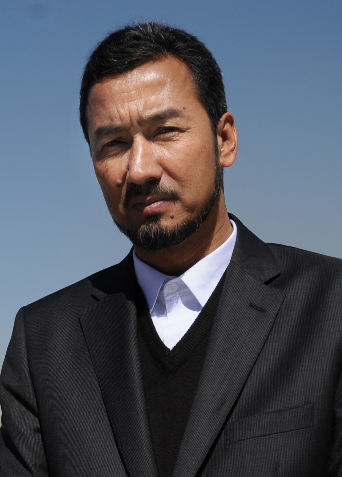 Abdul Rauf Ibrahimi, Speaker of the Lower House of the Afghan Parliament, at the U.S. Embassy in Kabul, Afghanistan.